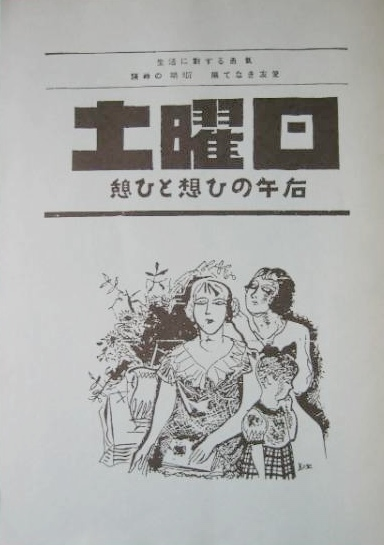 The top page of the magazine Doyobi